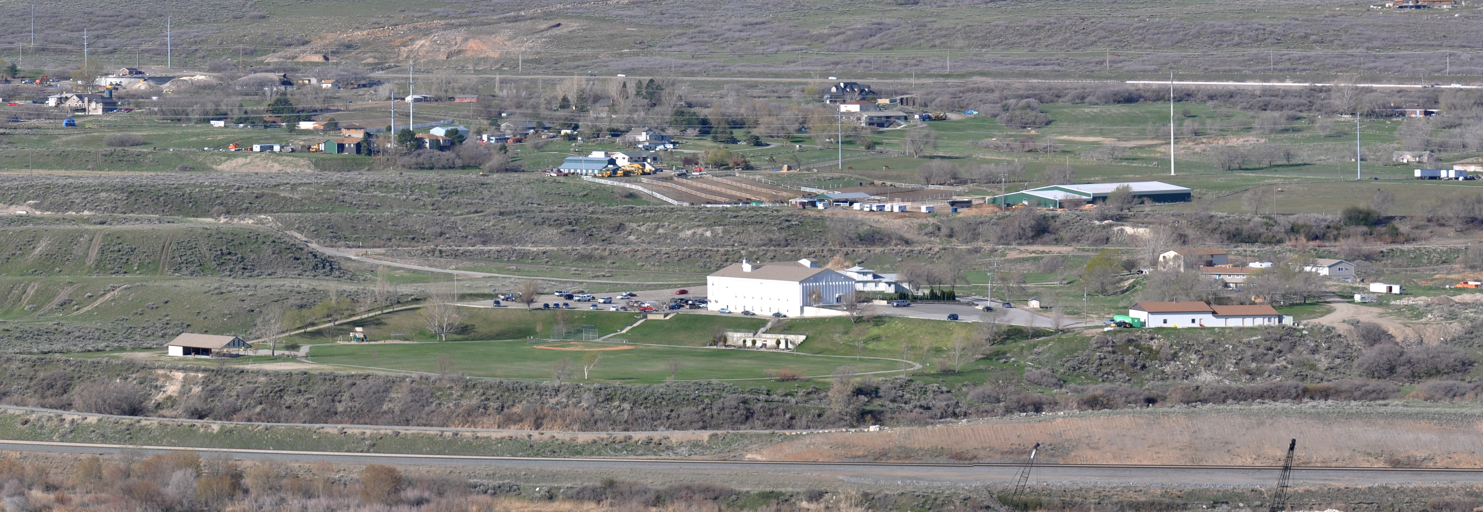 The headquarters is situated in a somewhat secluded part of the Wasatch Range bordering Salt Lake and Utah counties. The compound consists of two large buildings with a large parking lot to the North and East. Farther East sits a large grassy field with a baseball diamond. Still farther East (and out of this picture) is a large gravel pit that is currently operational. Separating the compound from the gravel pit is double train track which is the only train access through this part of the Wasatch Front. Adjacent to the North are a few homes which appear to share the one-road access to the compound. Due West is a horse riding school.